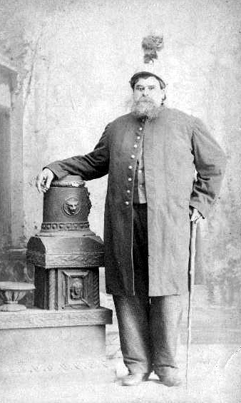 The Middlebush Giant circa 1900 Notes Source: Collection of Franklin Township Public Library, Somerset, New Jersey Note: Used with permission